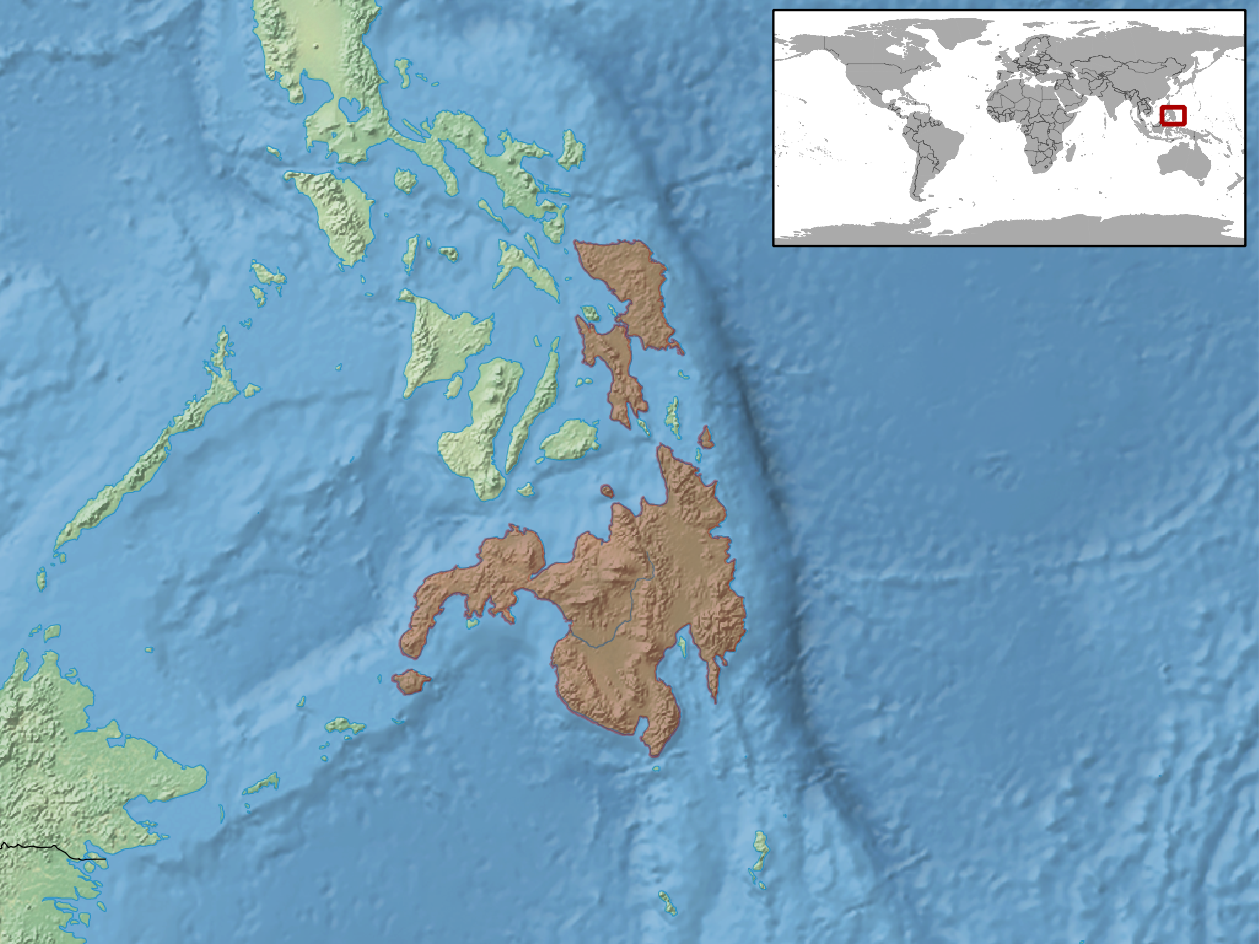 geographic distribution of Cyclocorus nuchalis (Native: Philippines)